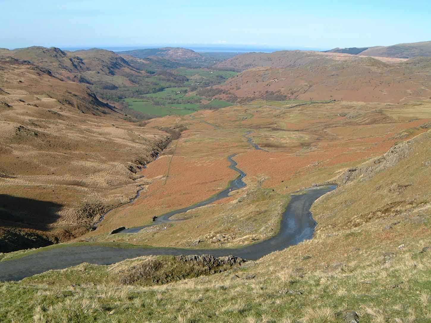 Eskdale (Cumbria, UK) with Muncaster Fell in the centre of the view. Personal photograph noriginally taken by Mick Knapton on April 19th 2005.